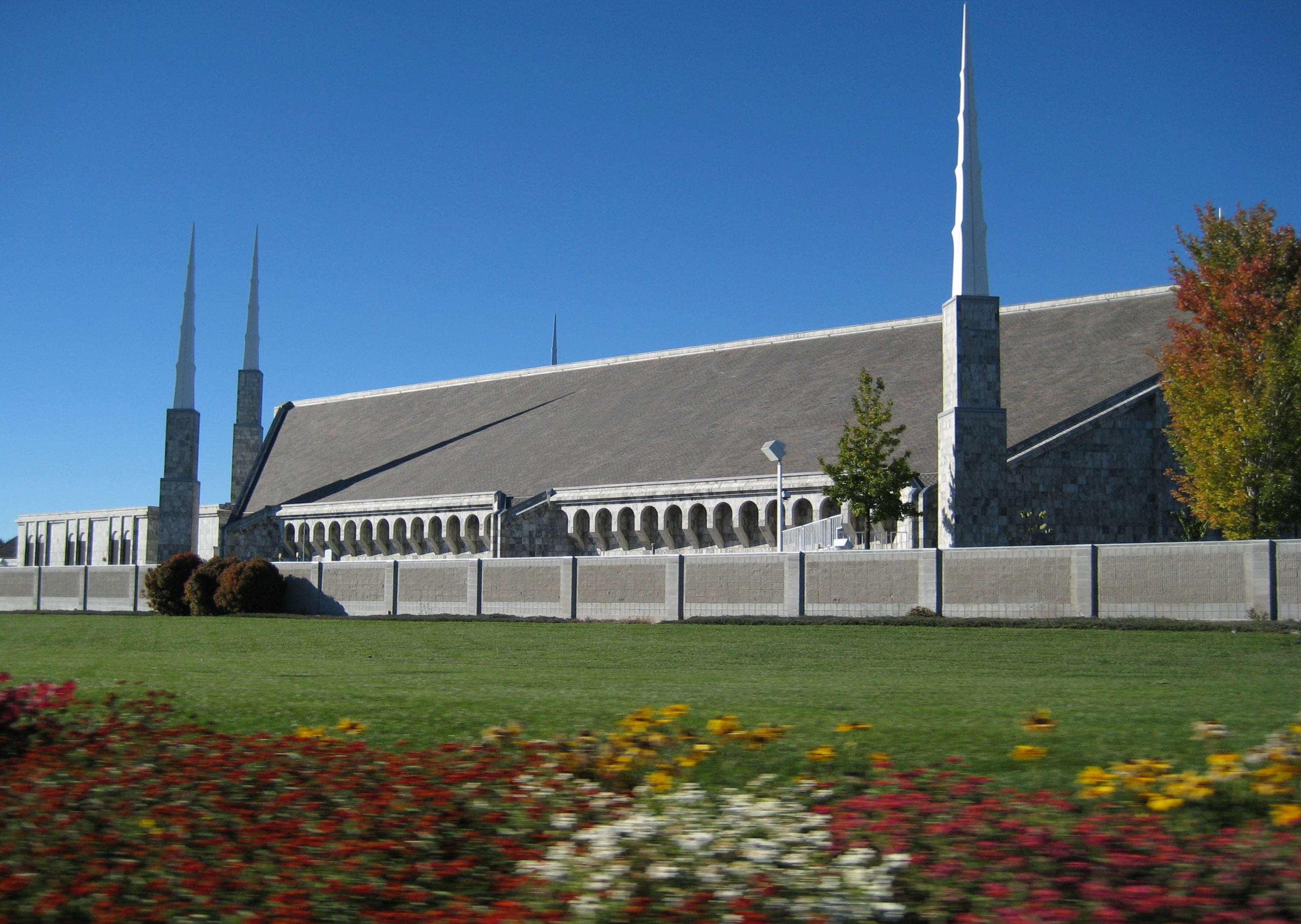 The Boise Idaho Temple of The Church of Jesus Christ of Latter-day Saints.